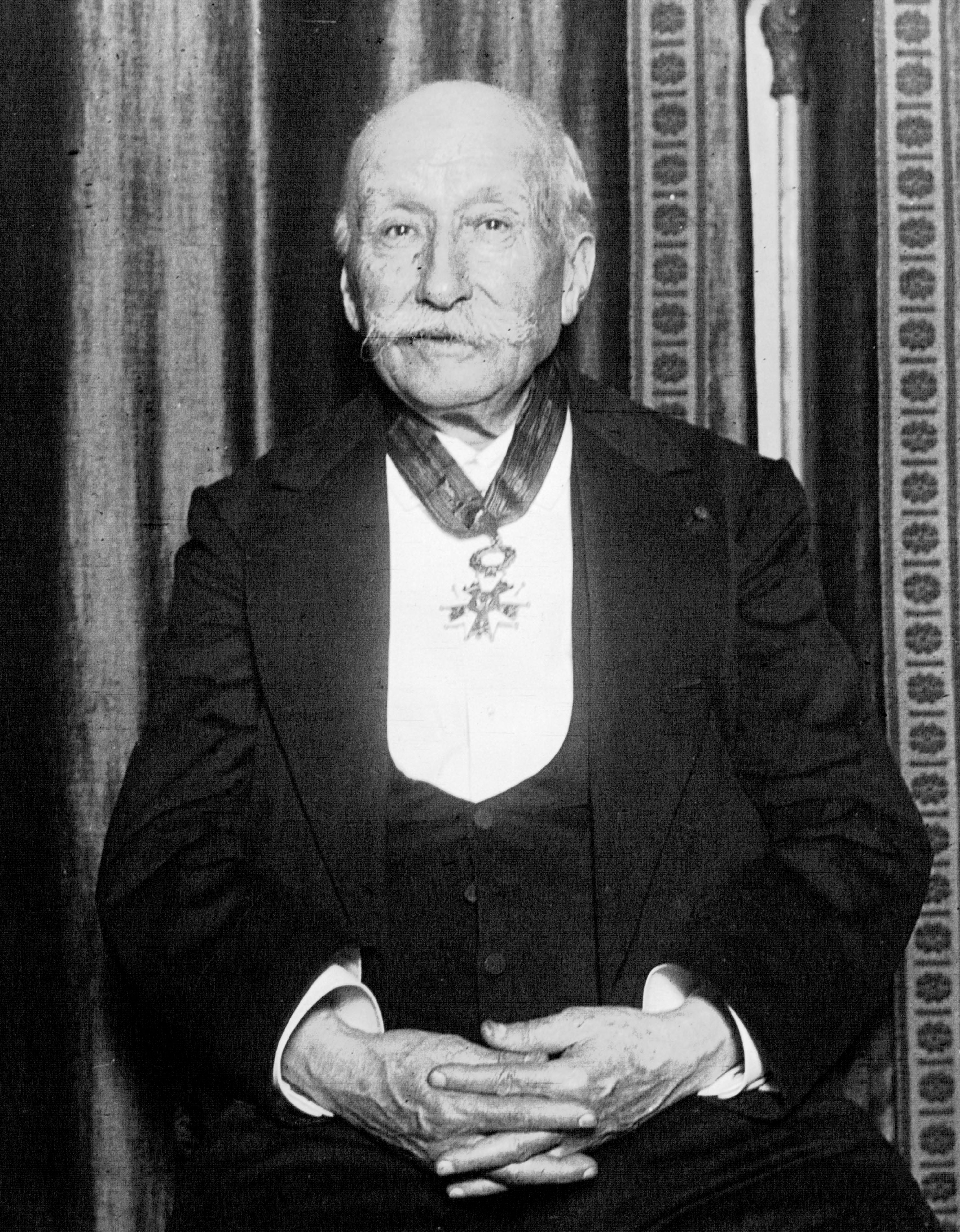 French aviation pioneer Clément Ader (1841-1925) promoted to the rank of Commandeur de la Légion d'honneur at the Palais d'Orsay in 1922.